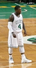 Nate Robinson waiting for a free throw to be thrown.